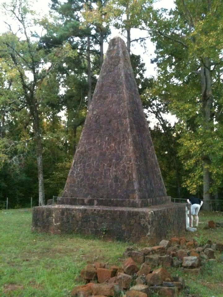 Photo of Killough Massacre Monument